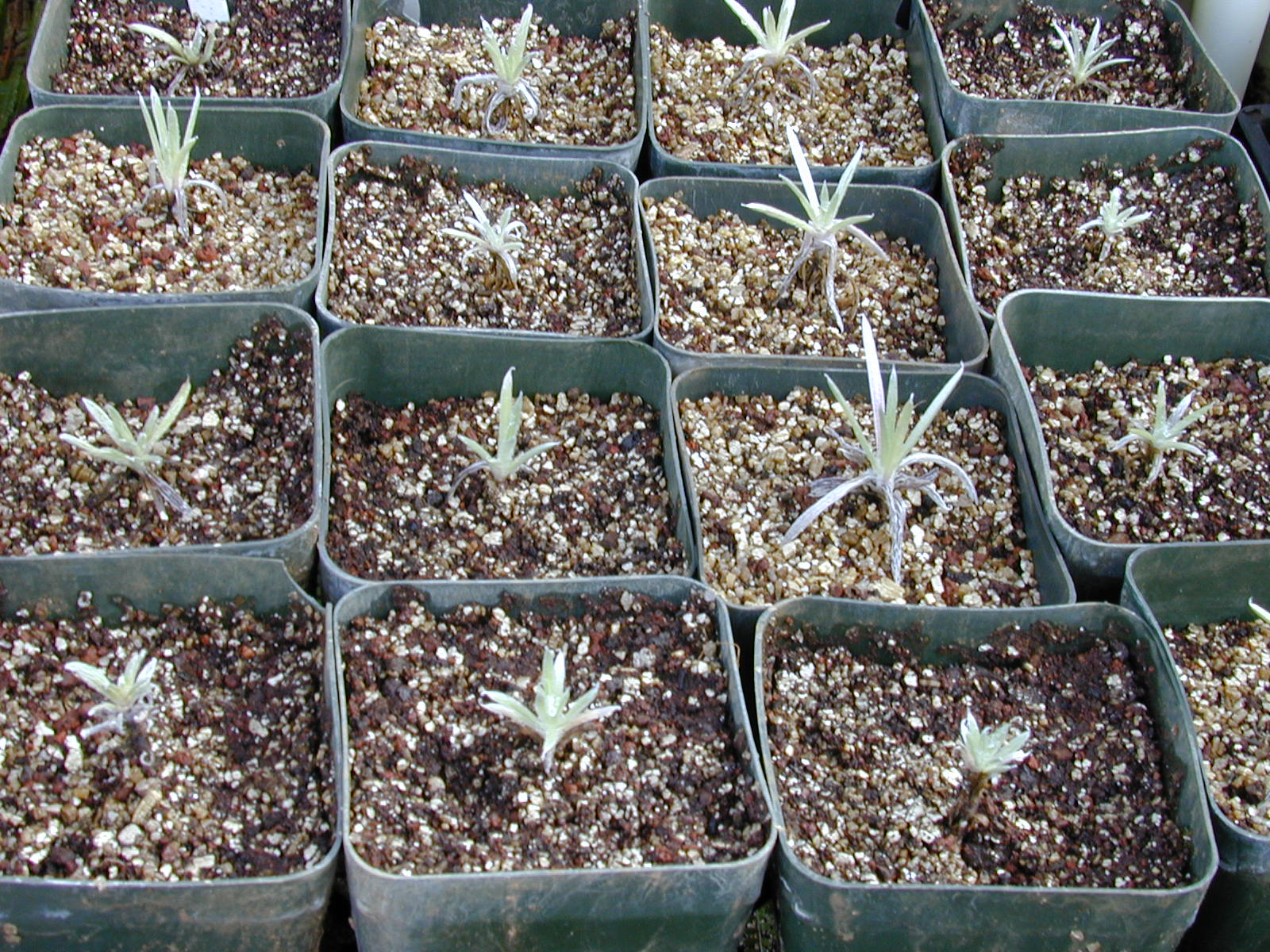 Argyroxiphium sandwicense subsp. macrocephalum (potted plants). Location: Maui, Haleakala National Park